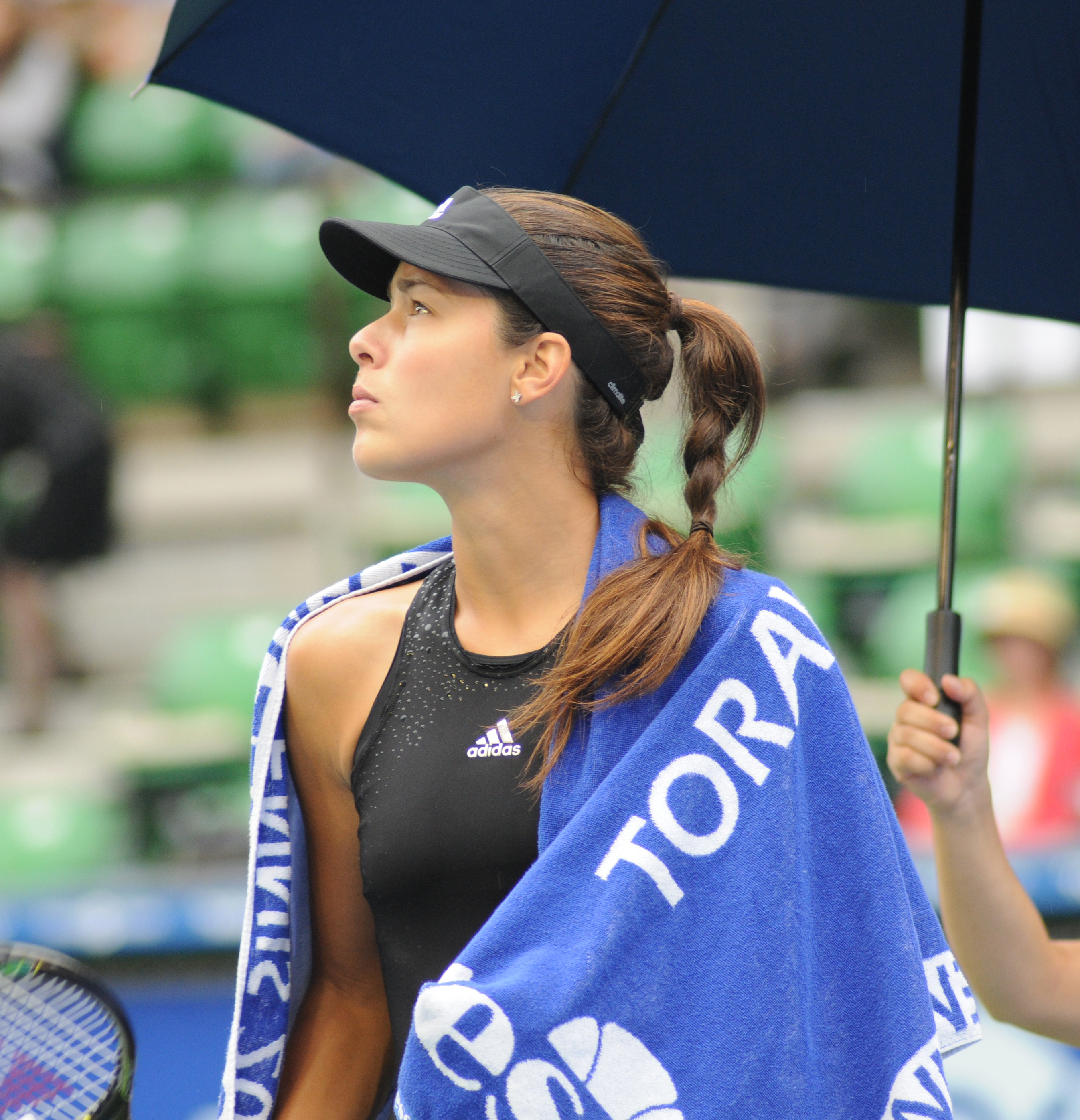 Ana Ivanović at the 2014 Toray Pan Pacific Open